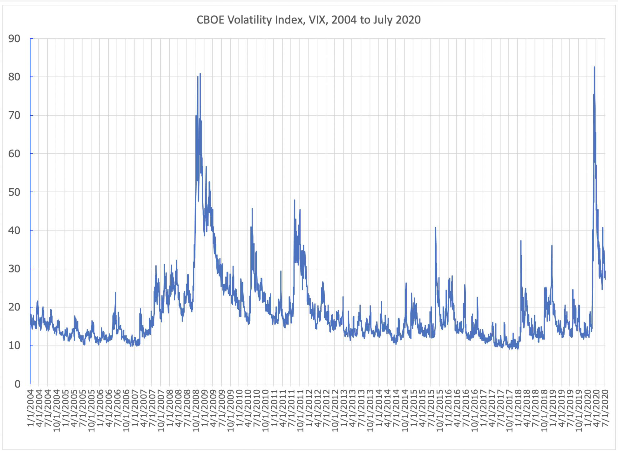 CBOE Volatility Index (VIX) from 2004 to July 2020 (daily closings)